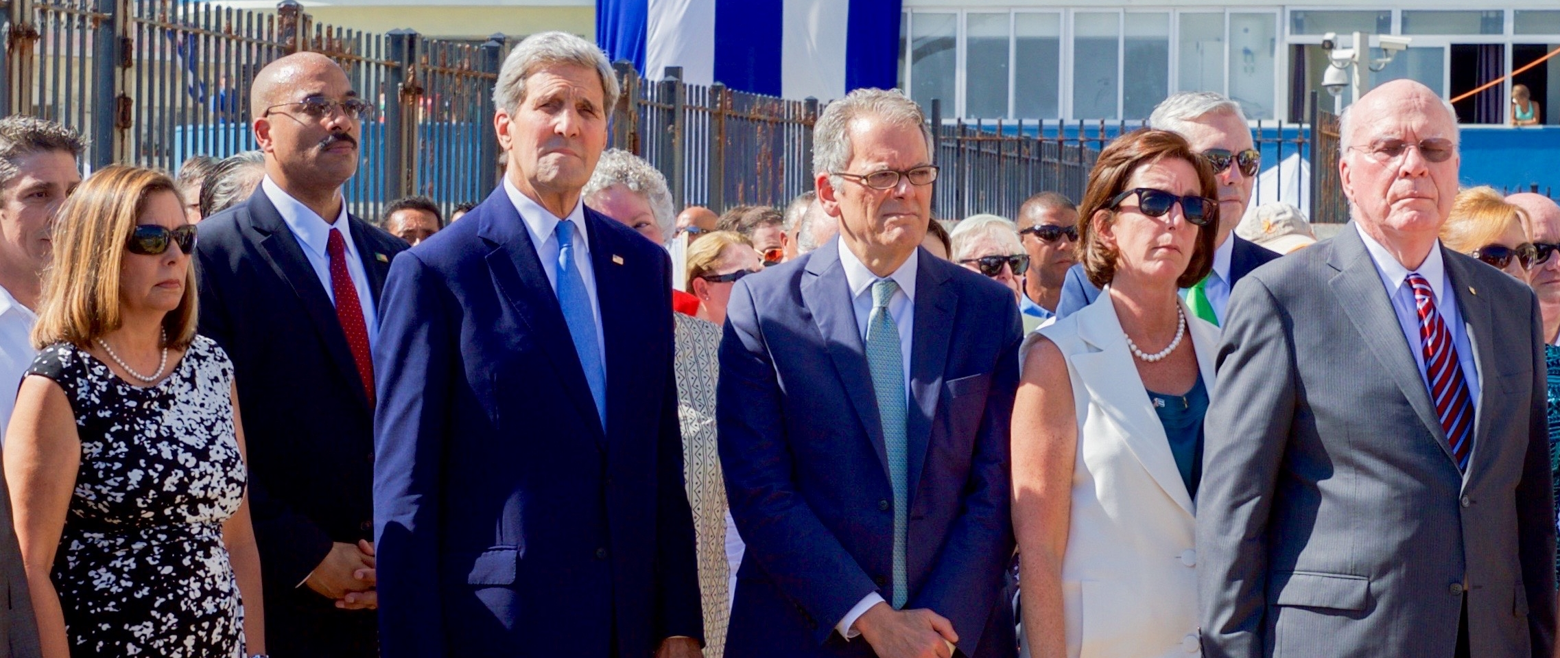 U.S. Secretary of State John Kerry stands for the playing of the Cuban national anthem at the newly re-opened U.S. Embassy in Havana, Cuba, on August 14, 2015. The Secretary is joined by, left to right, General Director of the U.S. Division of the Ministry of Foreign Affairs of Cuba Josefina Vidal Ferreiro; Chargé d'Affaires at U.S. Embassy Havana Ambassador Jeffrey DeLaurentis; Assistant Secretary of State for Western Hemisphere Affairs Roberta Jacobson, and U.S. Senator Patrick Leahy. [State Department photo/ Public Domain]